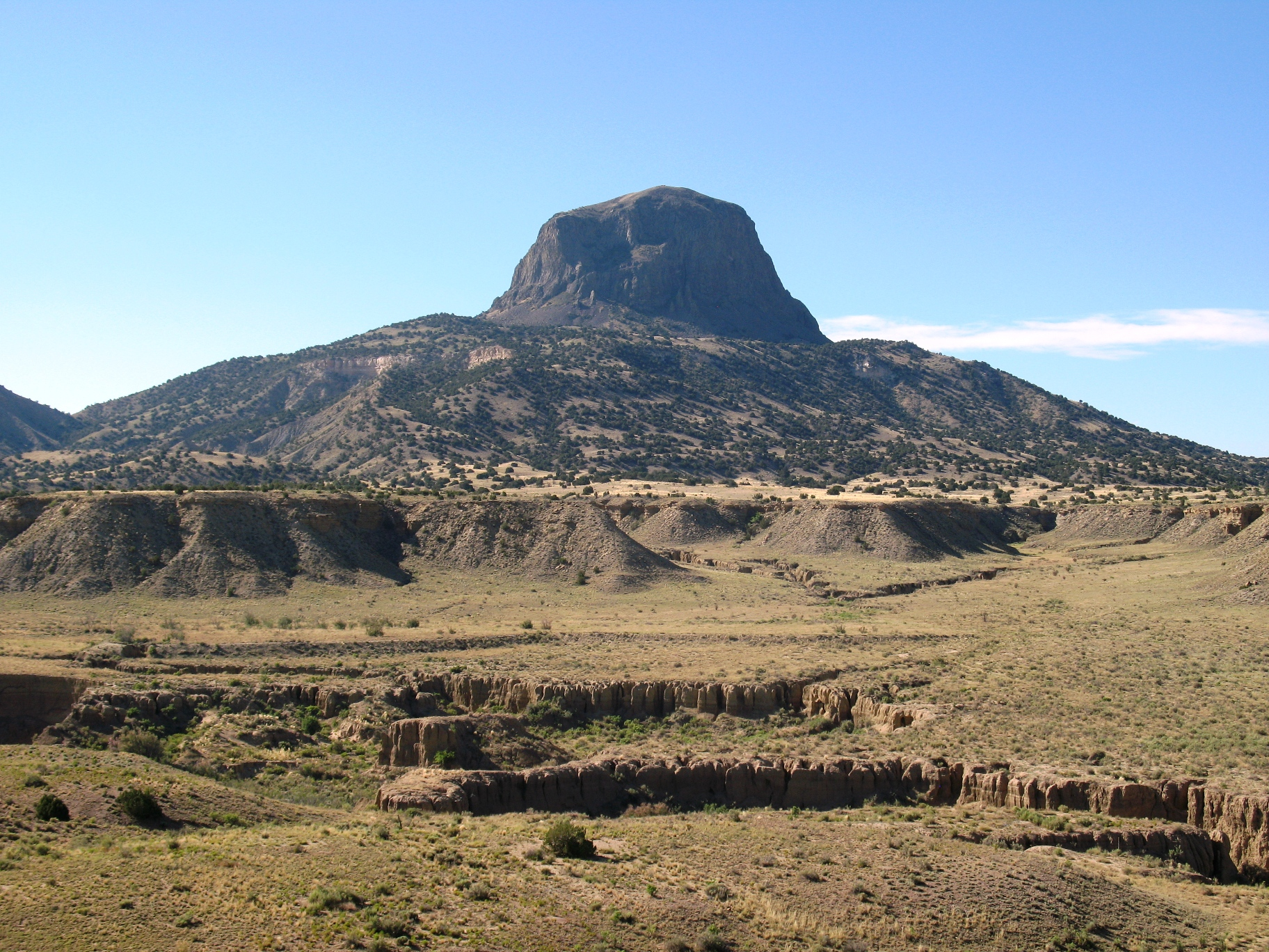 Cabezon Peak is a volcanic plug located near the "ghost town" of Cabezon, New Mexico. Around the base of the mountain are exposures of Mancos Shale, and Point Lookout Sandstone.